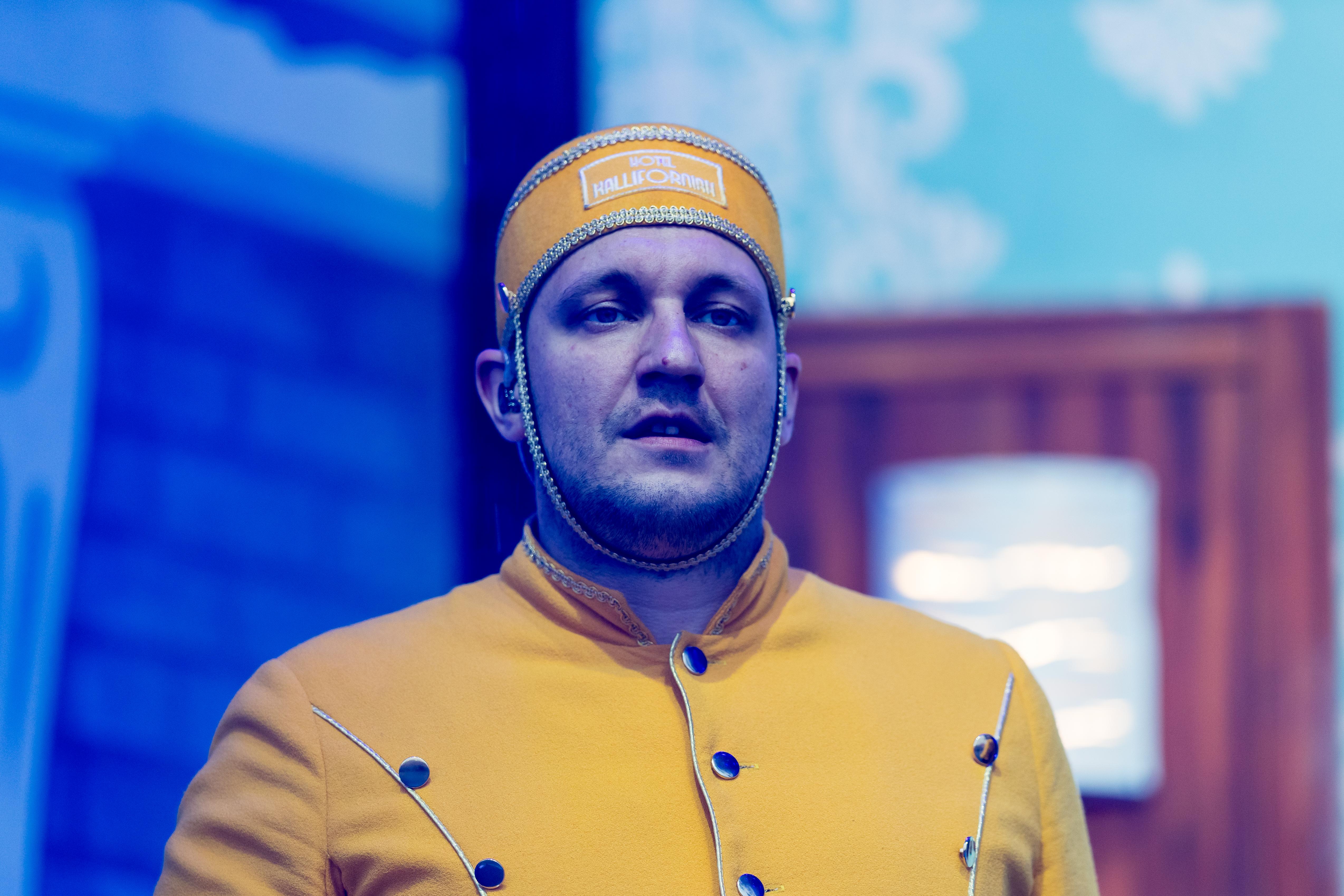 Alligatoah during Rock am Ring ( at Nürburgring, Rheinland-Pfalz, Germany on 2019-06-09, Photo: Sven Mandel Promotion by Live Nation (